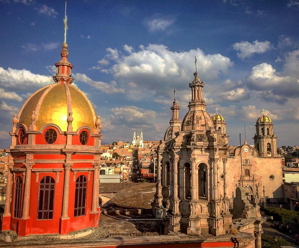 el centro historico